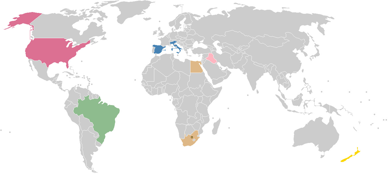 Map of participating countries